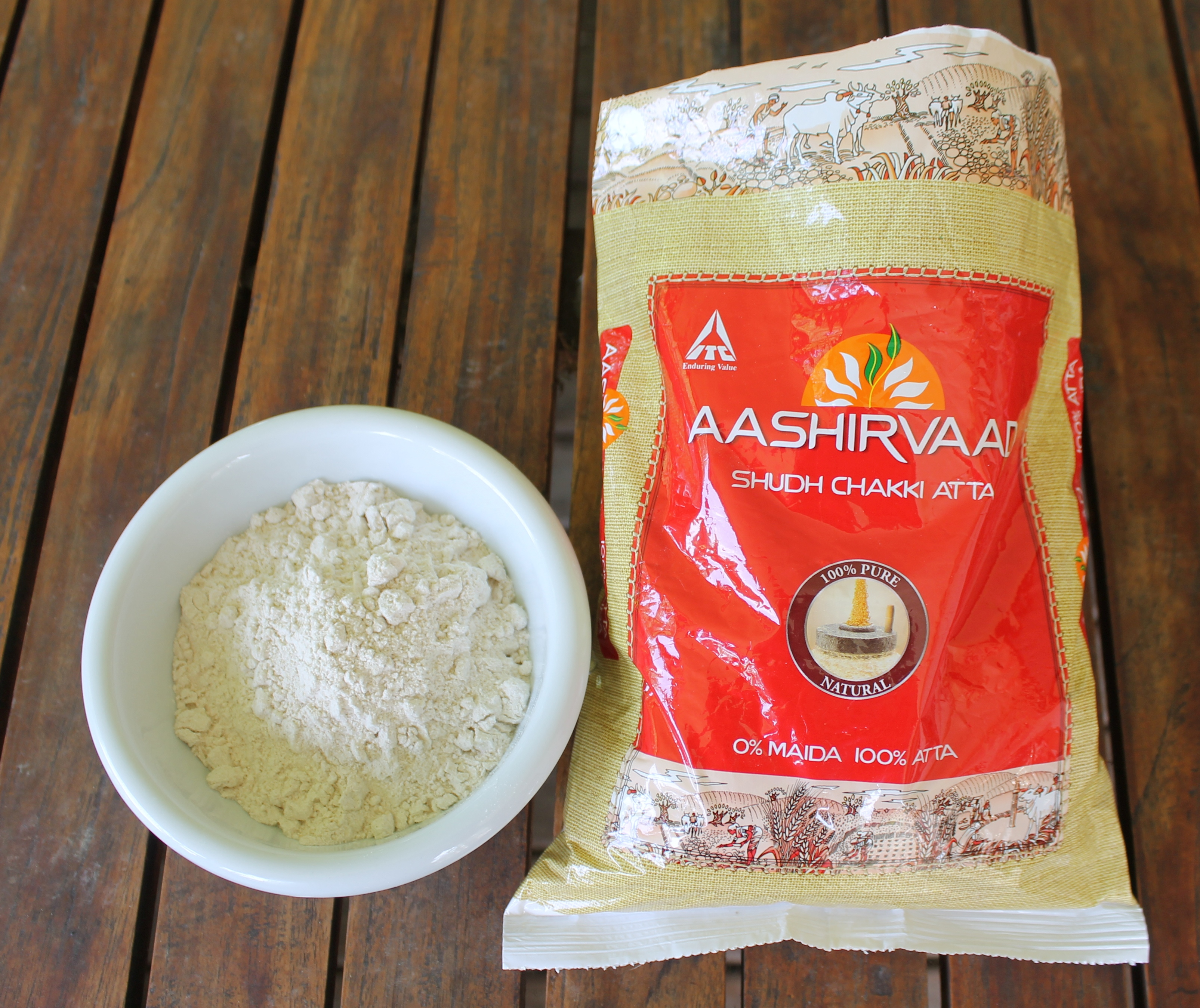 Atta flour